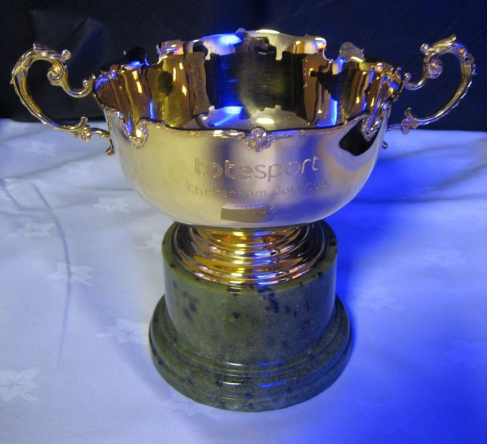 Totesport Cheltenham Gold Cup. On display at BBC Wales Sports Personality of the Year 2008 - winning jockey, Sam Thomas, rider of Denman